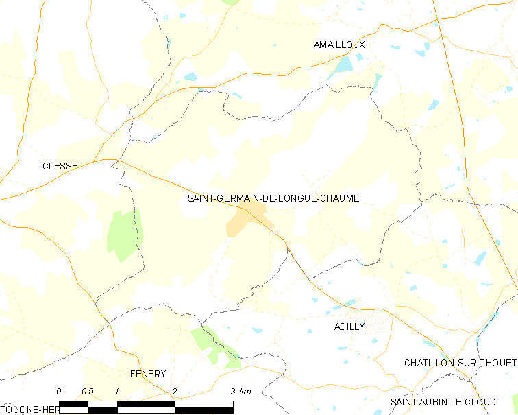 Map of French municipality Saint-Germain-de-Longue-Chaume